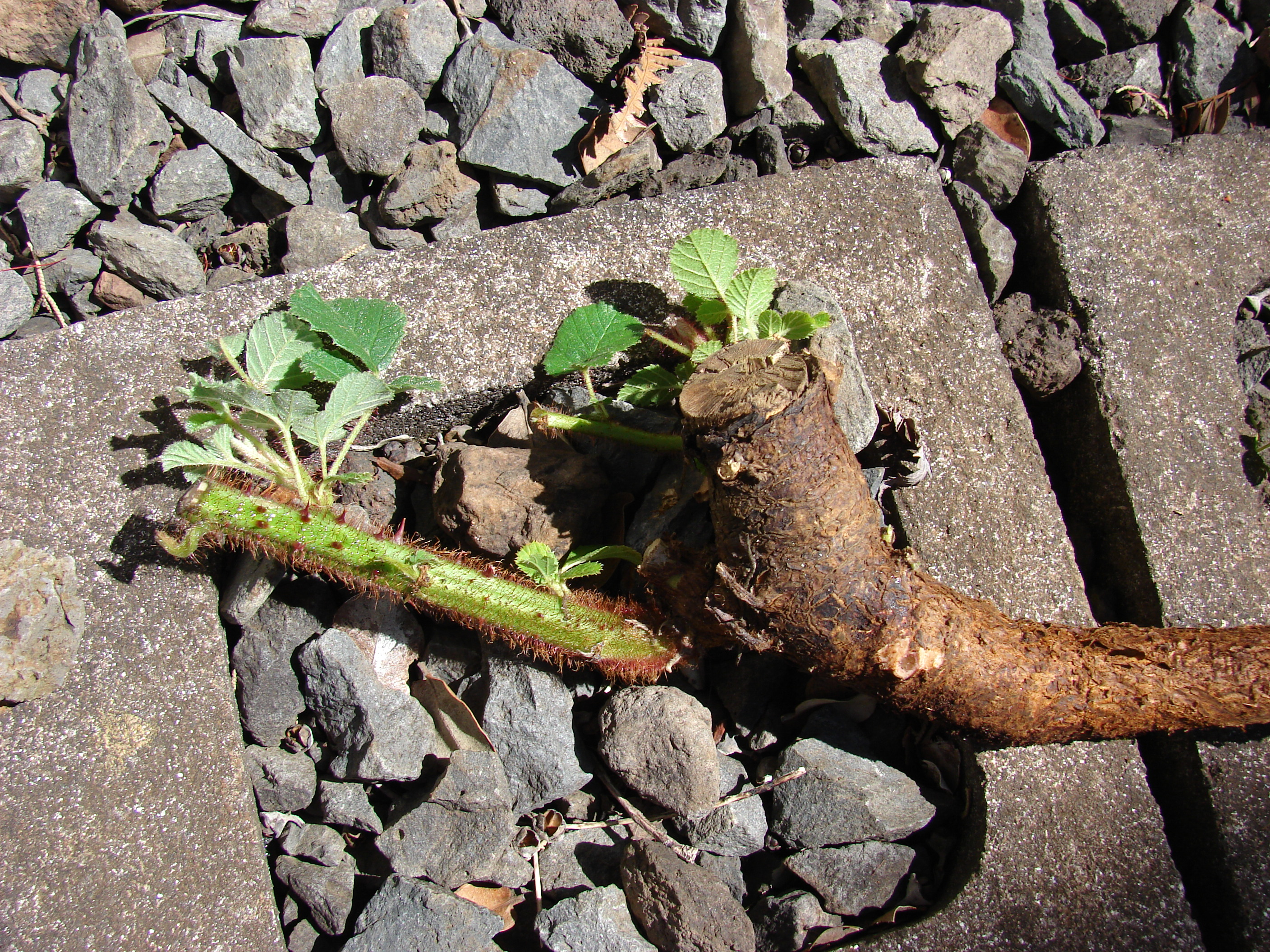 Rubus ellipticus (gnarly stem been cut before). Location: Maui, Enchanting Floral Gardens of Kula